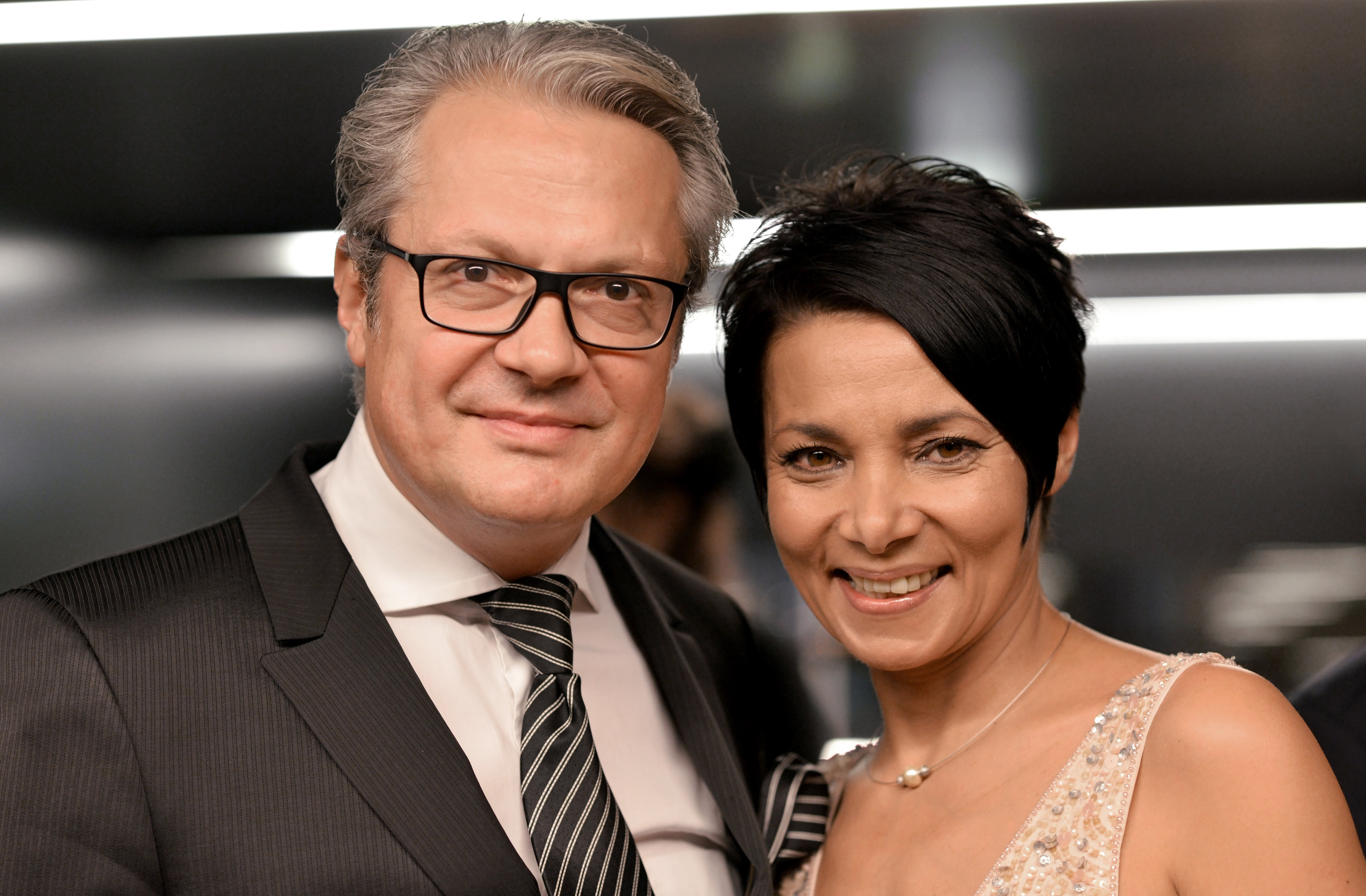 Sandra Cervik and Herbert Föttinger - Nestroy Theatre Awards 2014 at Wiener Stadthalle (Vienna, Austria).